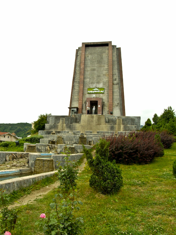 A View of Kashefosaltane Chaykar Tomb, Lahijan, Iran, Who brought Tea plant to iran for the first time. He also called father of Iran tea production.